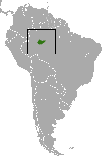 White-footed Saki (Pithecia albicans) range